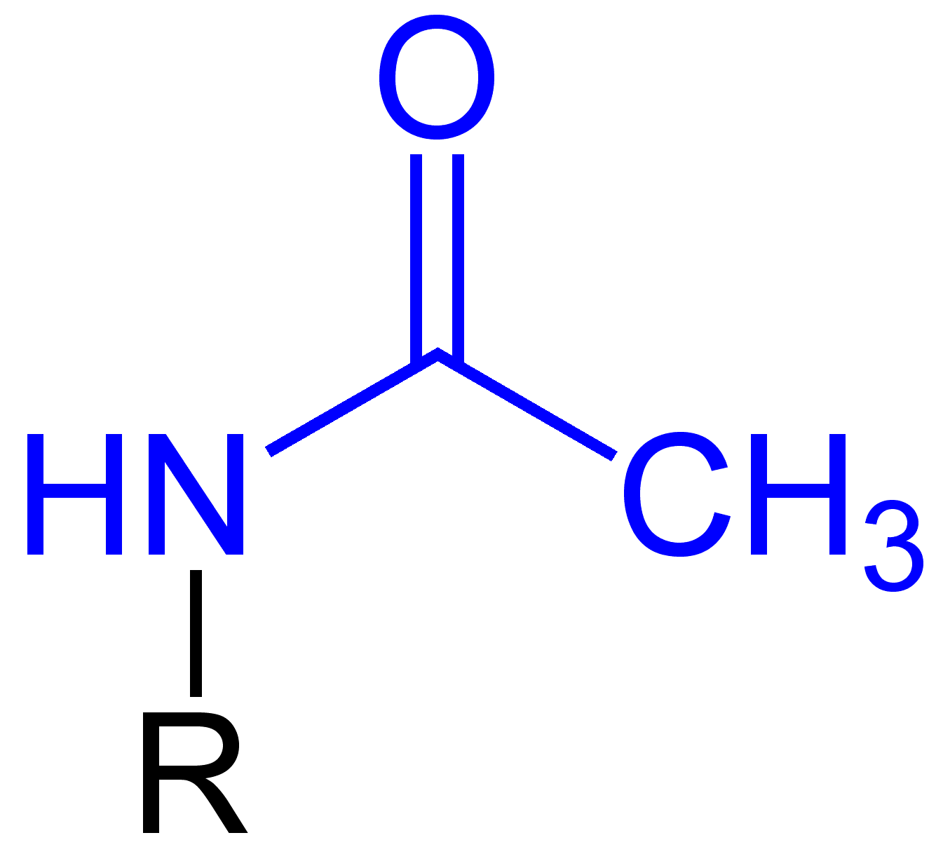 Acetylamino Group